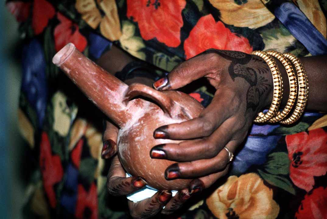 Woman with Henna painting in Sudan with a Jabana (a coffee can, often use in Sudan and Ethiopia)